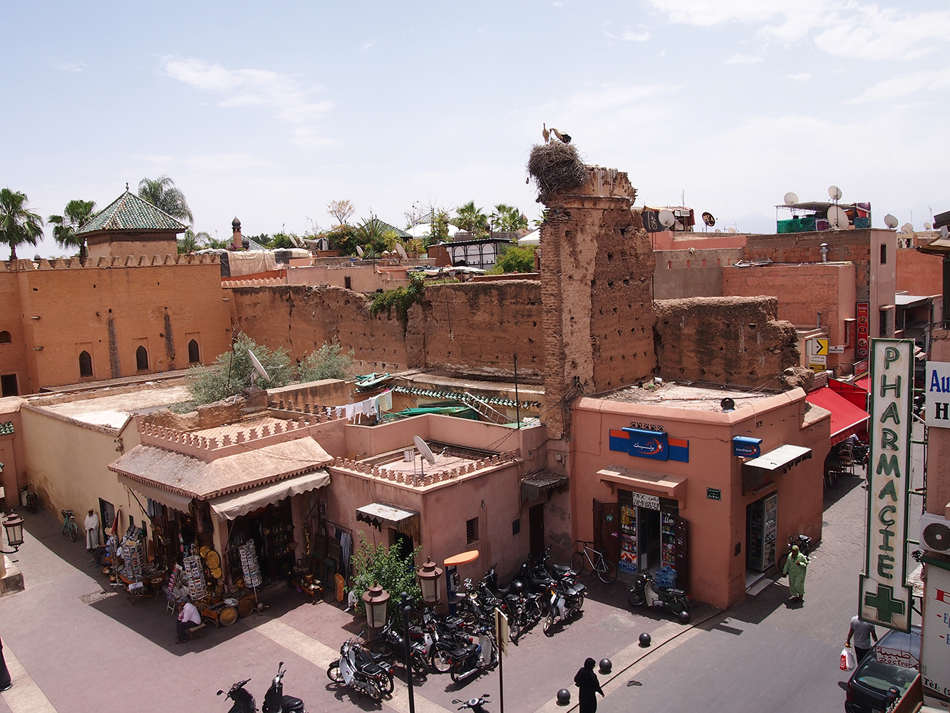 Remains of old walls of the Kasbah at the square in front of the Kasbah Mosque, with Saadian Tombs visible on the far left.